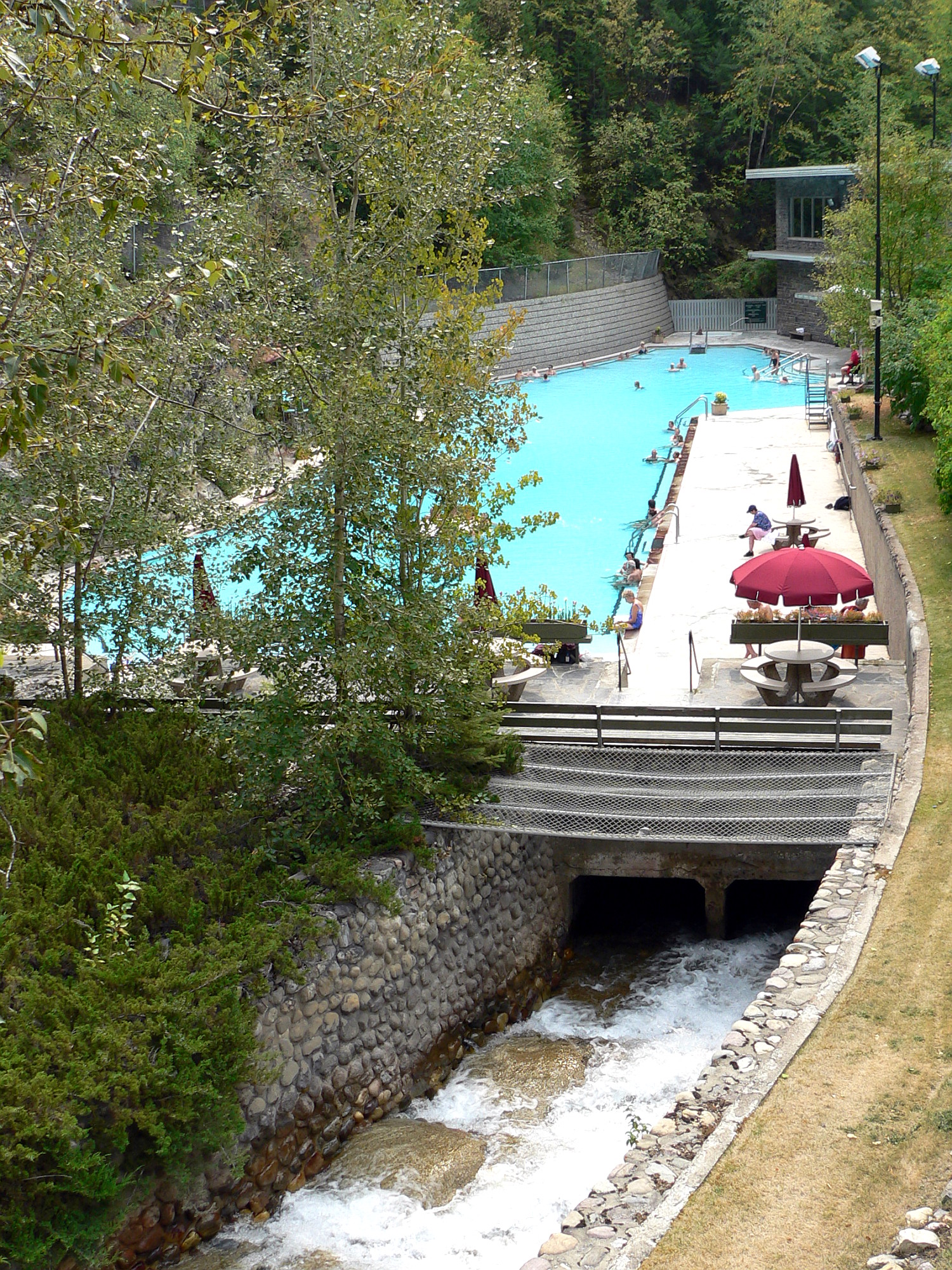 Bathers relax in the hot-water pool at Radium Hot Springs in British Columbia, Canada.Photo taken with a Panasonic Lumix DMC-FZ20.